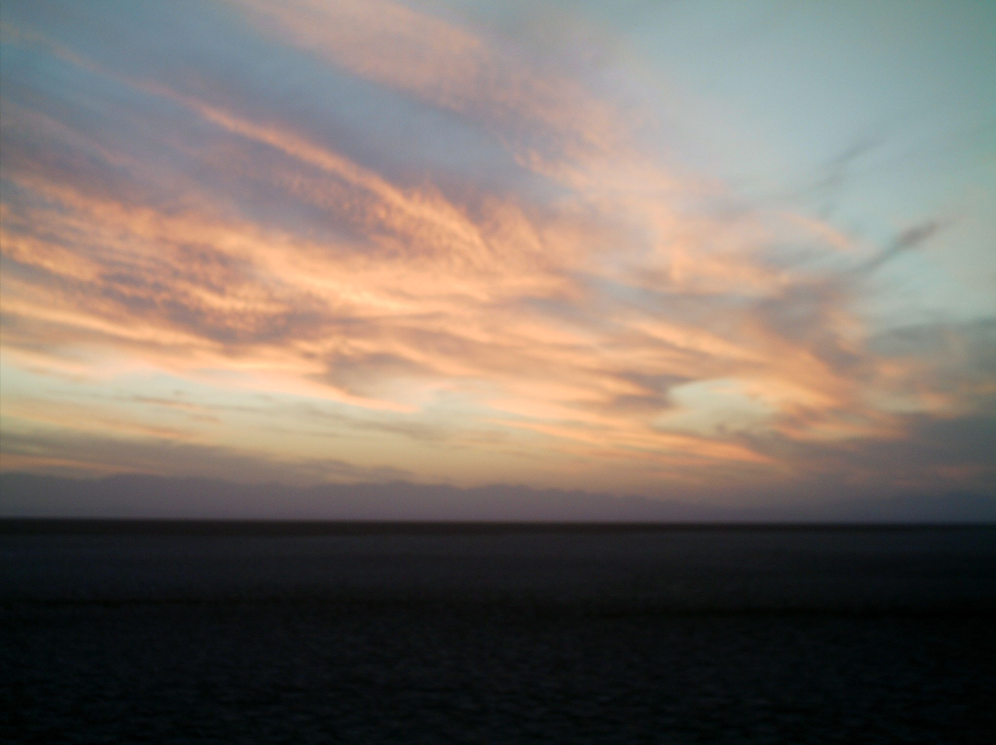 Desert in Iran (Dasht-e Kavir)